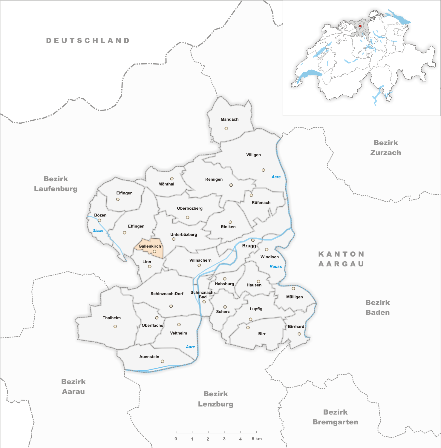 Municipality Gallenkirch